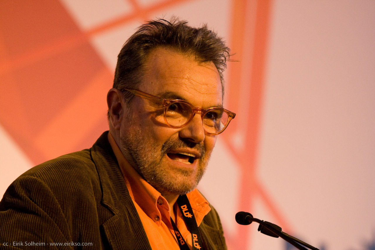 Oliviero Toscani at Digital, Life, Design Conference (DLD) in Munich in 2008.